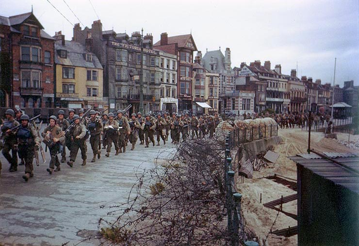 Normandy Invasion Preparations, 1944 Photo #: USA C-727 (Color) U.S. Soldiers march through Weymouth, Dorset, en route to board landing ships for the invasion of France, circa late May or early June 1944. Note the barbed wire in the foreground.